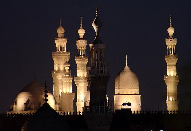 View from Al-Azhar Park